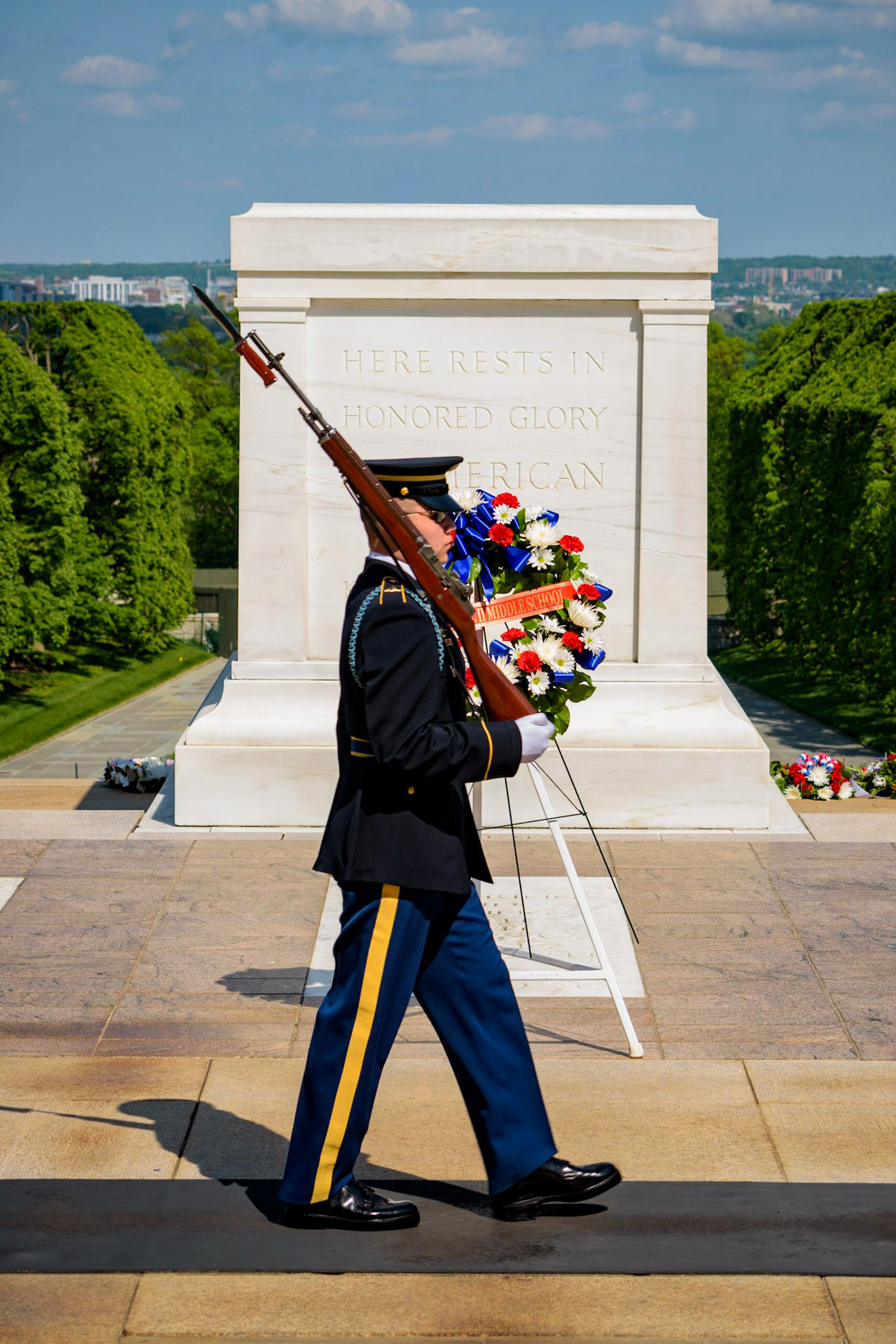 A picture of the soldier who guards the unknown soldiers grave in Arlington National Cemetary. Pacing back and forth, watching over the grave